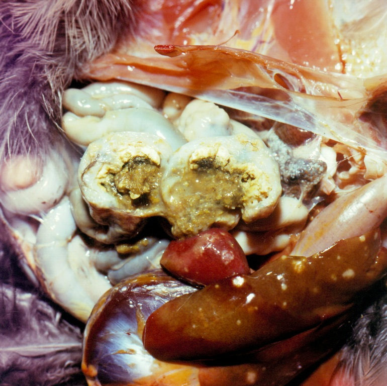 avian tuberculosis (liver, spleen, intestines) - chicken - with dissection through the tubercules